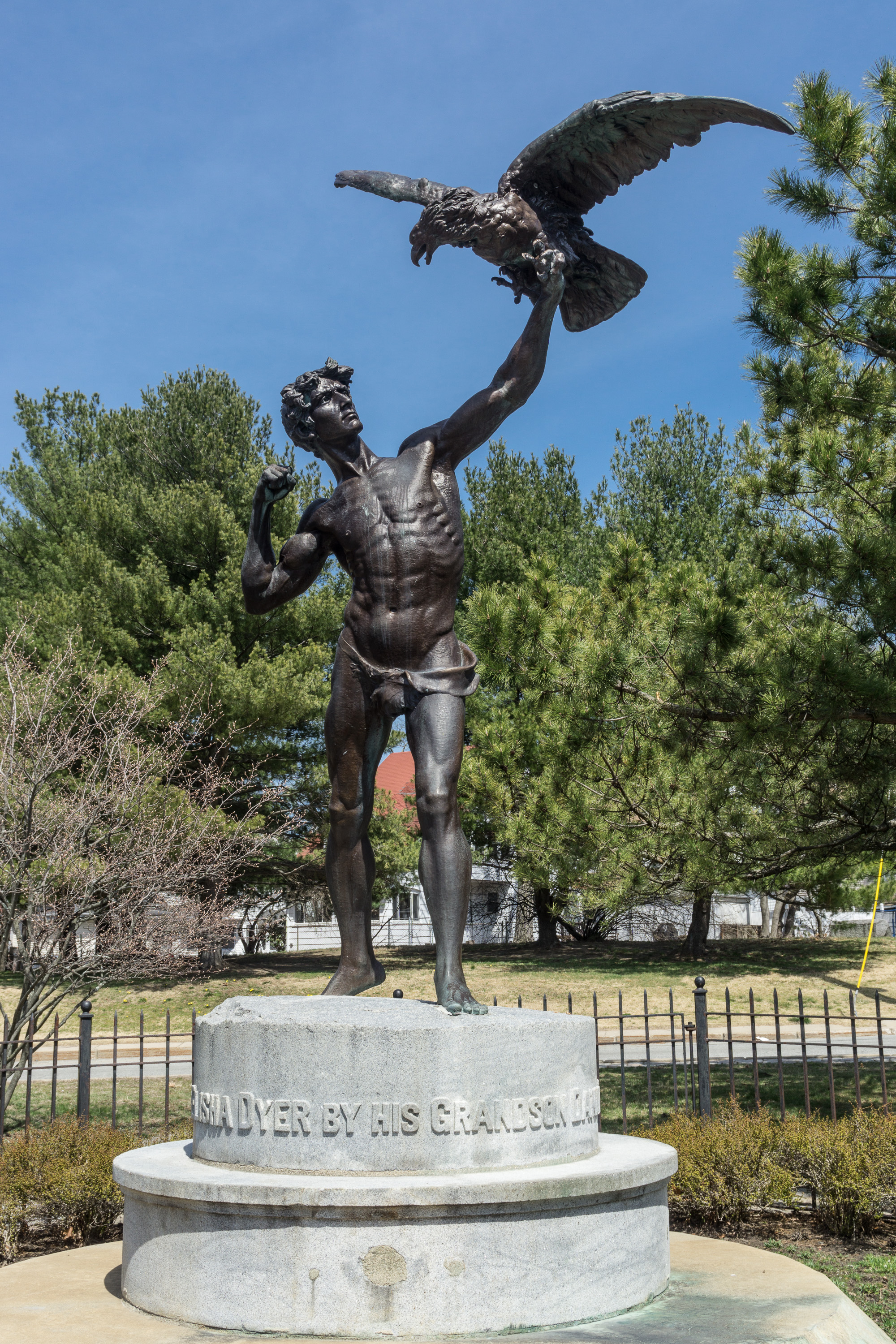 The Falconer, Roger Williams Park, Providence, Rhode Island. Bronze statue was donated by industrialist Daniel Wanton Lyman in memory of Governor Elisha Dyer, Sr. (1811-1890). It was designed by Henry Hudson Kitson of Boston. Installed in 1893